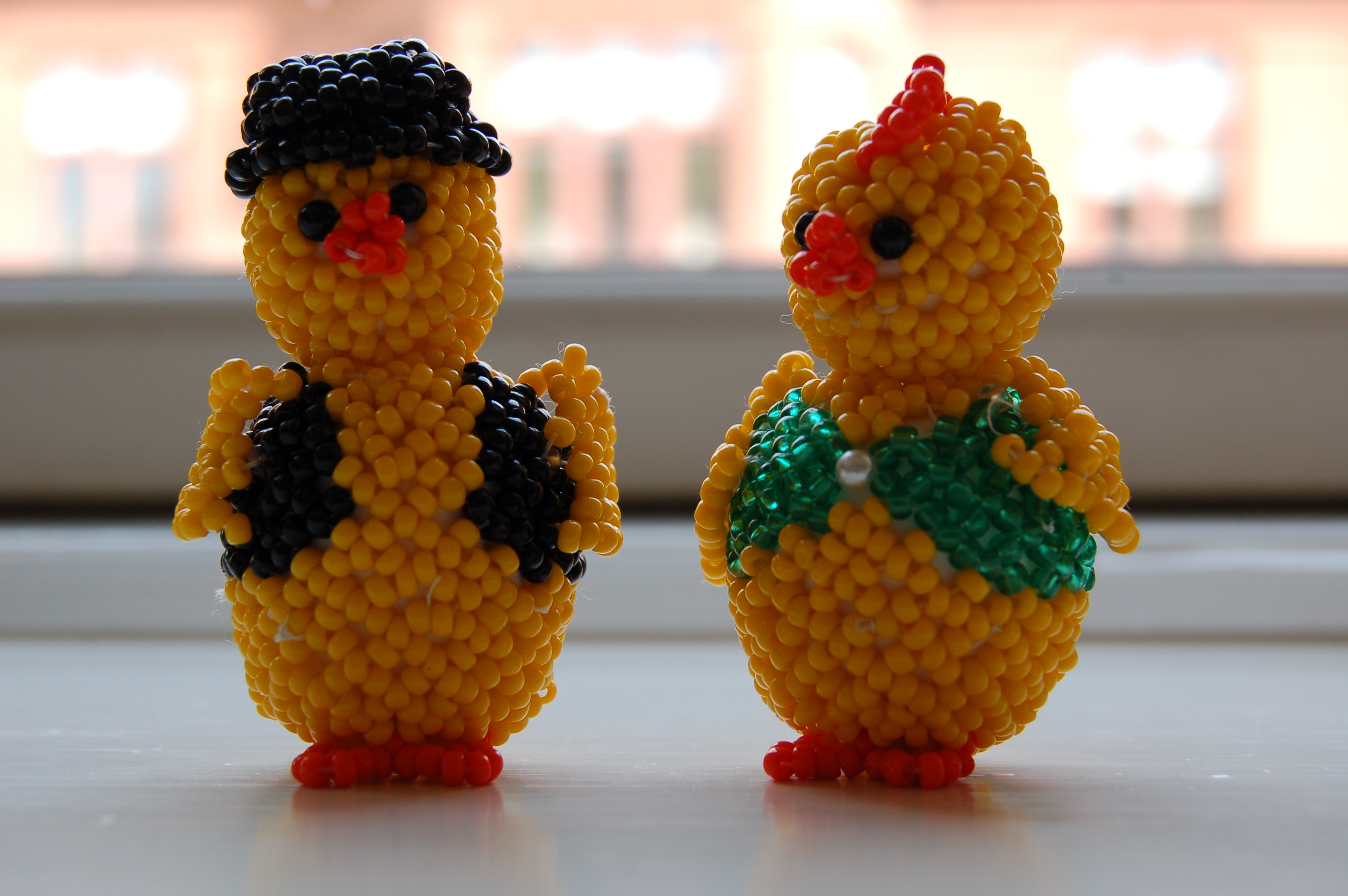 Photo of Danish Easter decorations made of beadwork